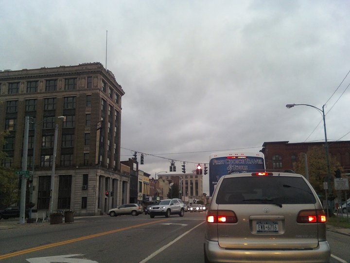 Downtown Olean, NY.